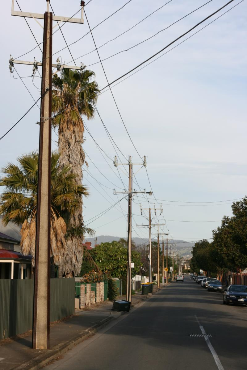 Ridleyton, Adelaide, Australia - street view, Stobie poles